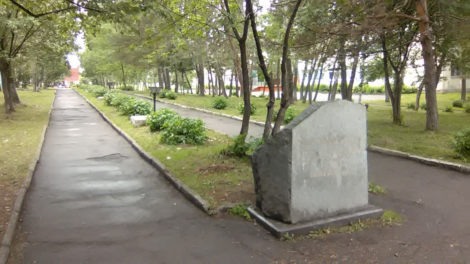 Аллея Трудовой славы